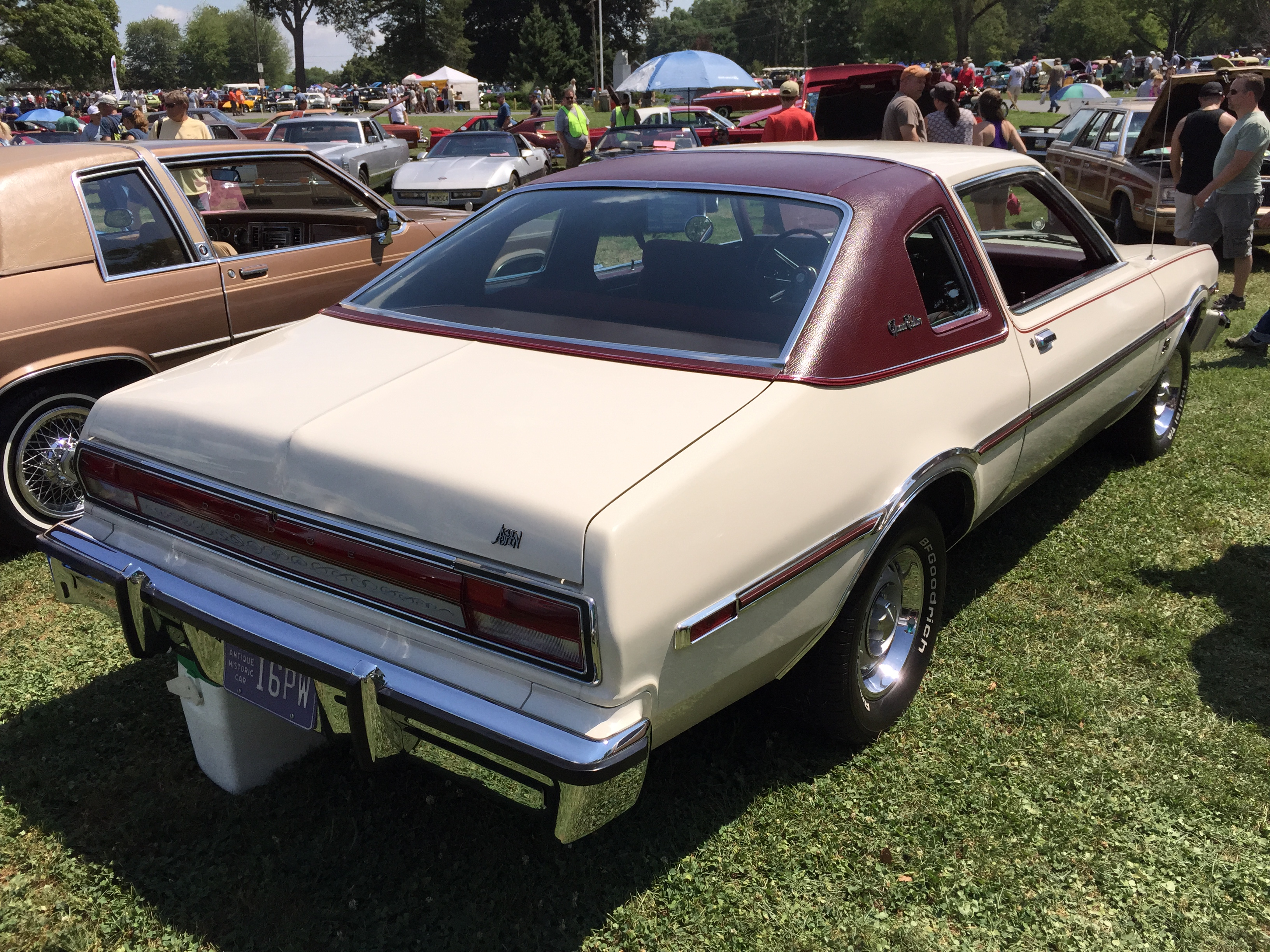 1976 Dodge Aspen SE coupe. All original, factory condition. Picture taken at the 52nd Annual "Das Awkscht Fescht" antique car show in Macungie, Pennsylvania.